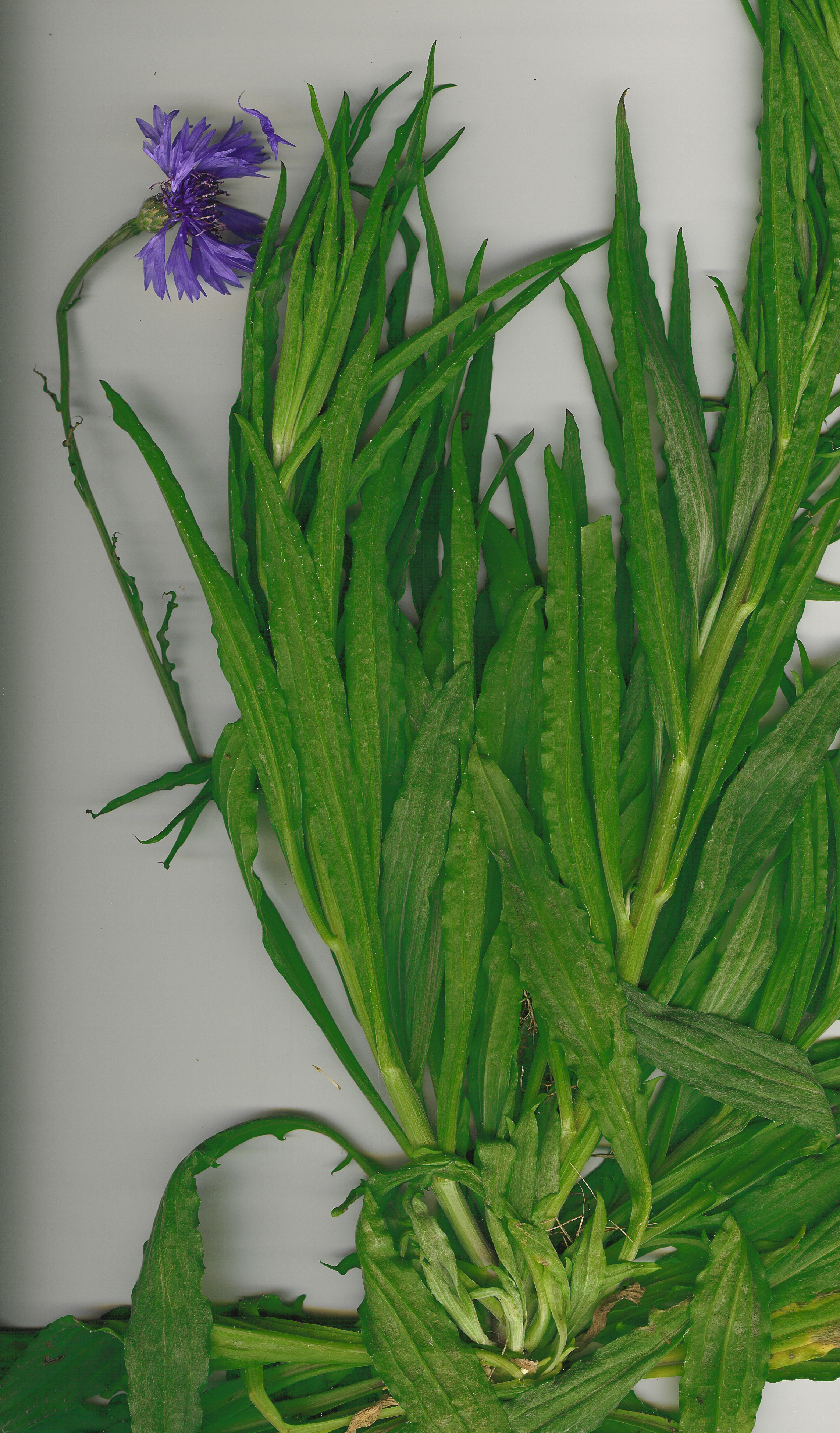 Centaurea cyanus (purple flower plant). Location: Maui, Kula